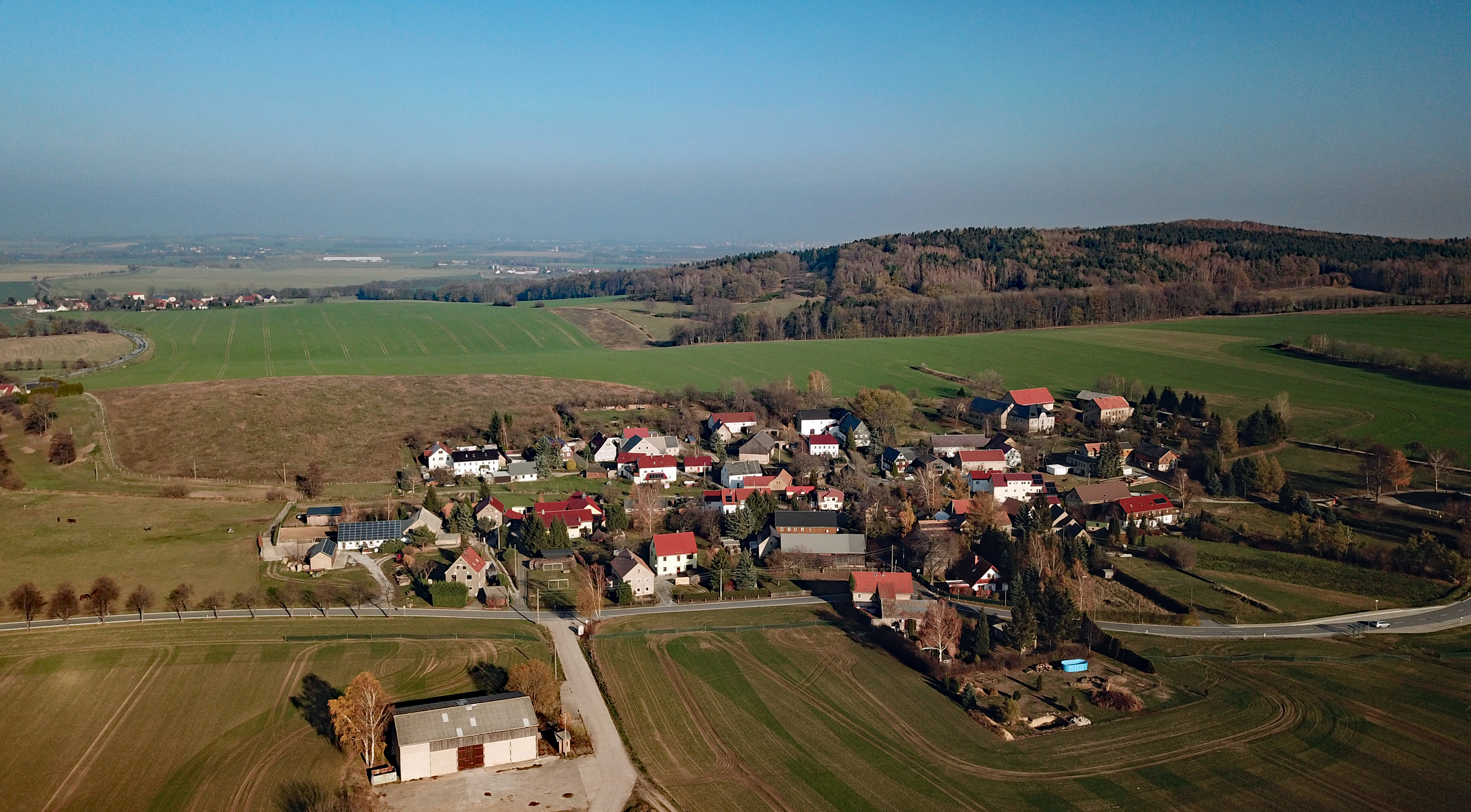 Dretschen (Doberschau-Gaußig, Saxony, Germany) Hornjoserbsce: Powětrowy wobraz Drječina